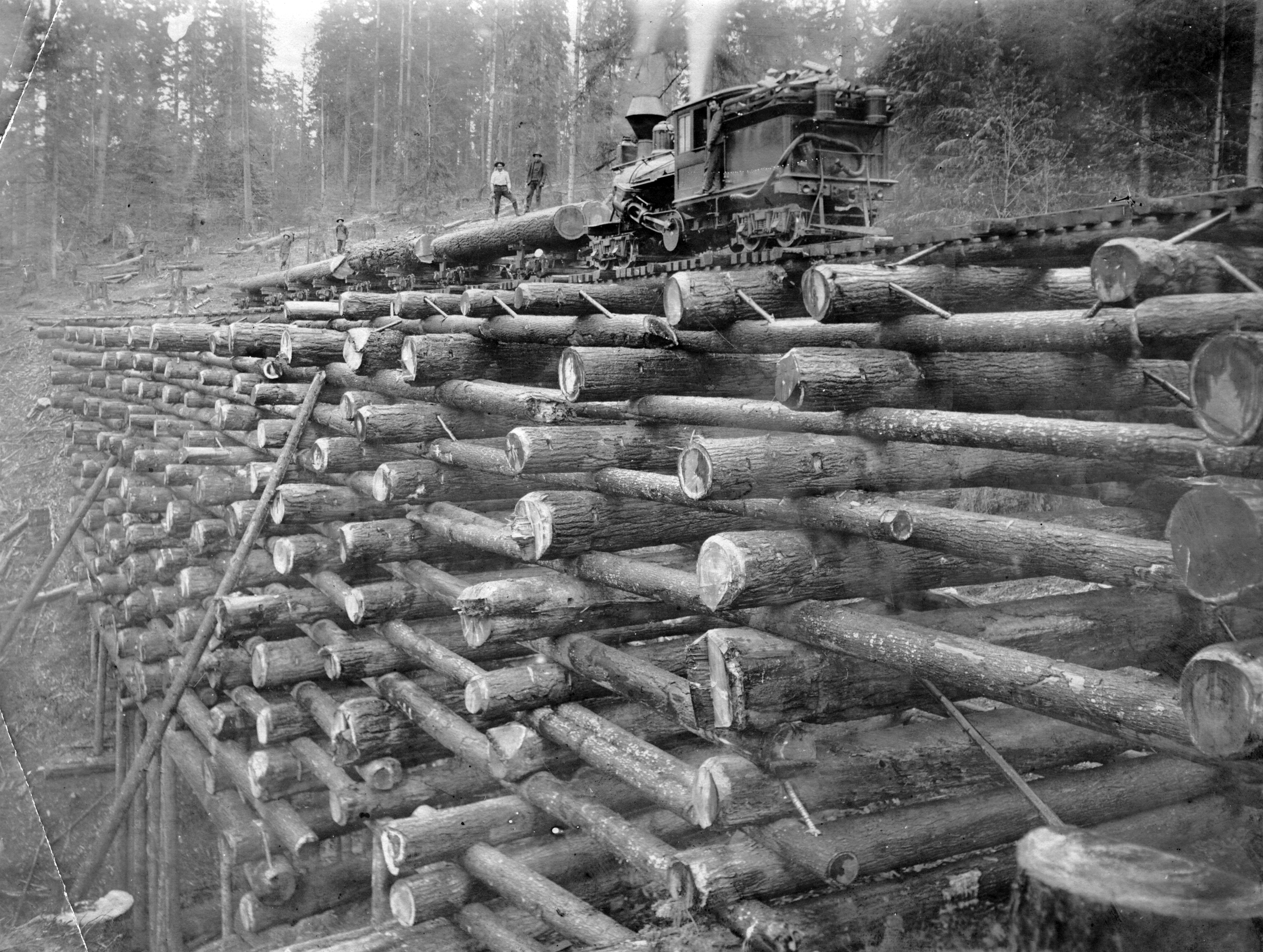 Description/Notes: The Columbia and Nehalem Valley Railroad was a logging railroad for the Peninsular Lumber Company of Portland in the area around Columbia City, Oregon. Original Collection: Gerald W. Williams Collection Item Number: WilliamsG:Ford 27 You can find this image by searching for the item number by clicking here. Want more? You can find more digital resources online. We're happy for you to share this digital image within the spirit of The Commons; however, certain restrictions on high quality reproductions of the original physical version may apply. To read more about what “no known restrictions” means, please visit the Special Collections & Archives website, or contact staff at the OSU Special Collections & Archives Research Center for details.